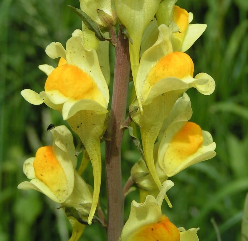 Common toadflax (Linaria vulgaris). Photo by sannse, Wivenhoe trail (Colchester to Wivenhoe), 9 June 2004.